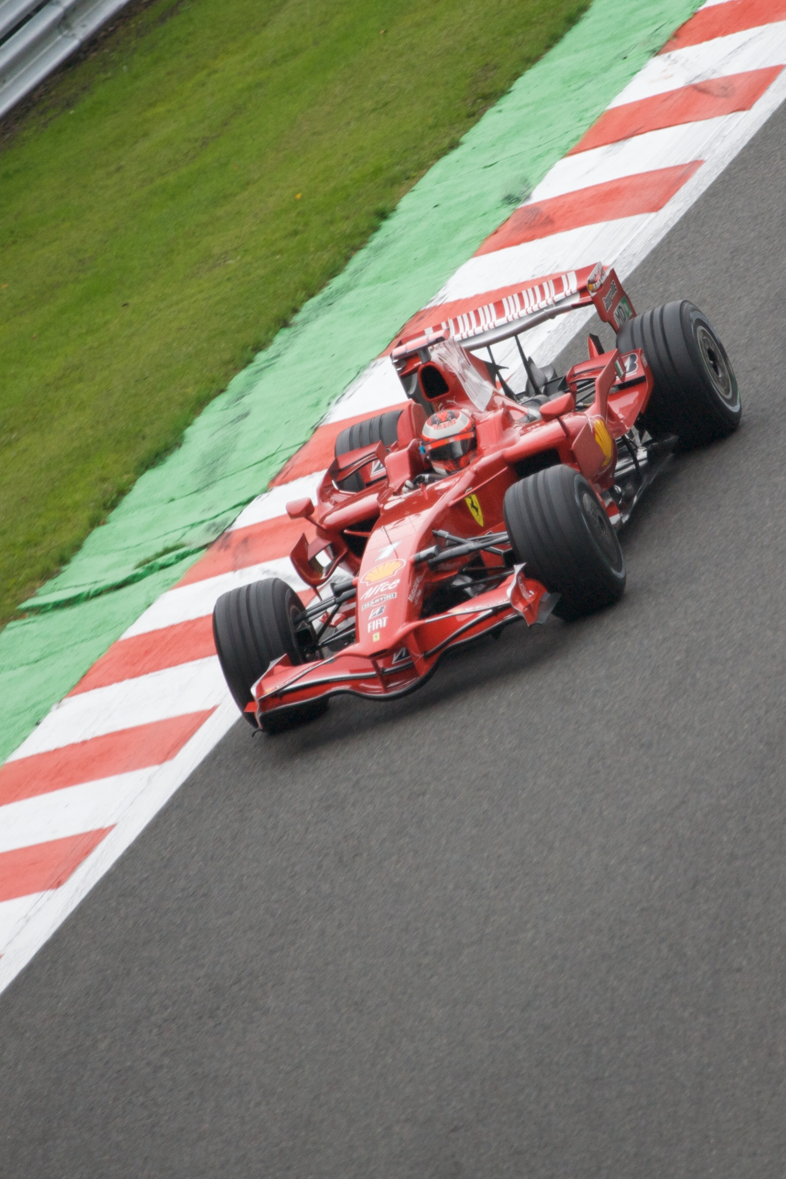 Kimi Räikkönen driving for Scuderia Ferrari at the 2008 Belgian Grand Prix.